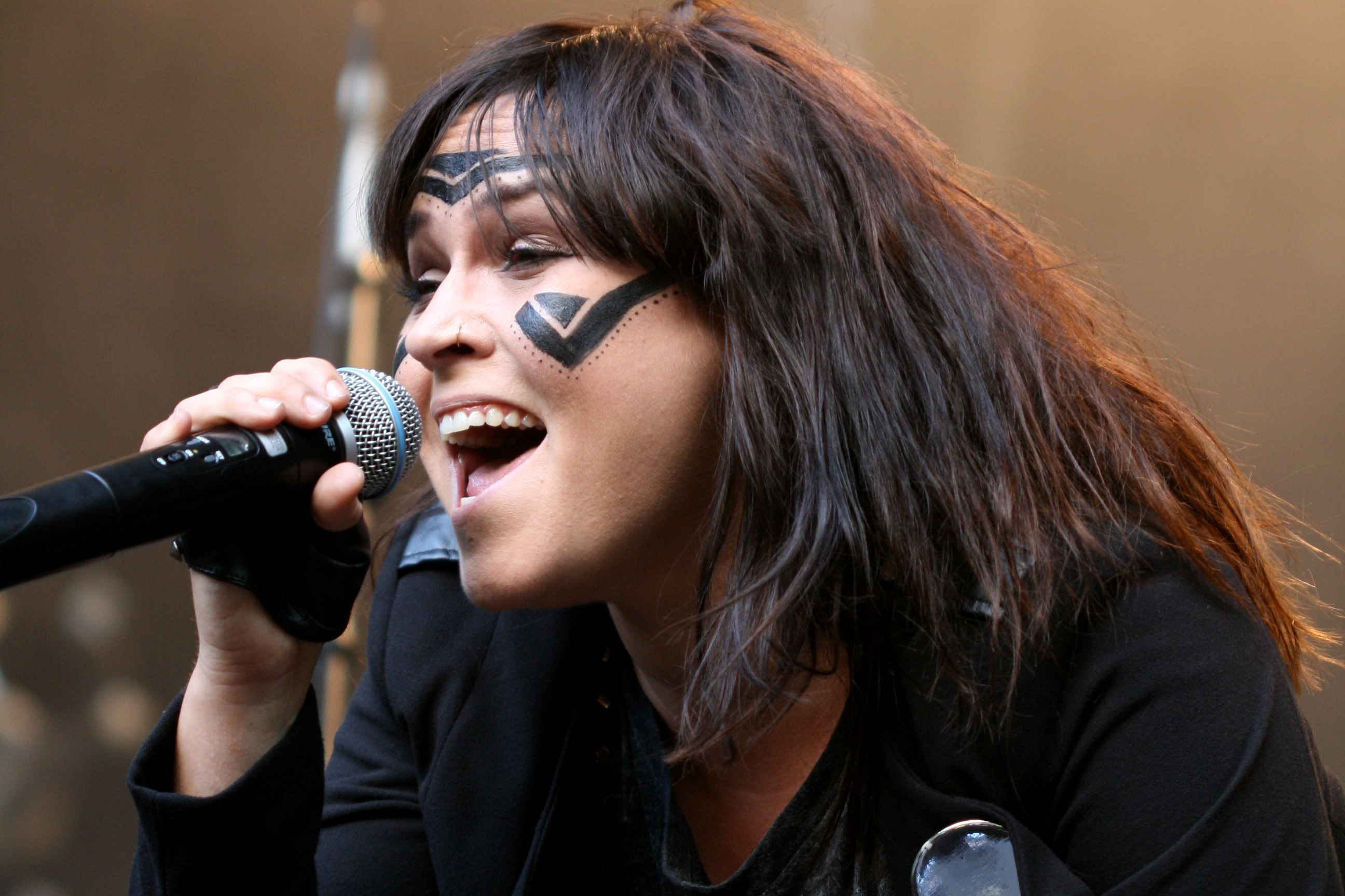 Jen Bender, singer of Grossstadtgeflüster, on the "Sounds For Nature" Stage of the Taubertal Festival 2013. Festivalsommer This photo was created with the support of donations to Wikimedia Deutschland in the context of the CPB project "Festival Summer".